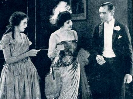 Still for the American film A Tailor-Made Man (1922) with Irene Lentz, Edythe Chapman, and Charles Ray, on page 31 of the September 1922 Film Fun. Irene Lentz would later become a costume designer under the name Irene.